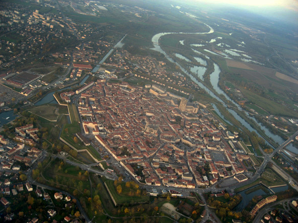 Aerial photograph of Toul, Lorraine, France